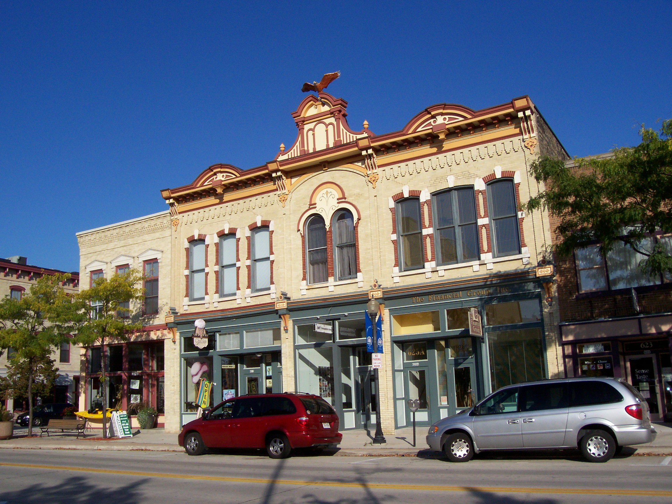 Looking northeast at the Henry and Charles Imig Block in downtown 8th Street Sheboygan, Wisconsin. It is listed on the National Register of Historic Places.